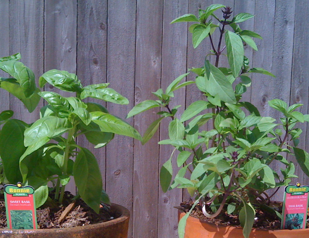 Sweet Basil and Thai Basil plants